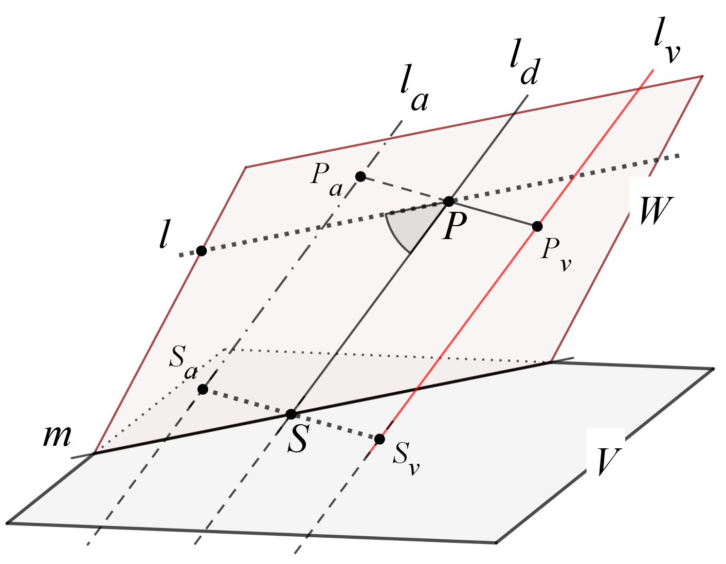 non-intersecting lines